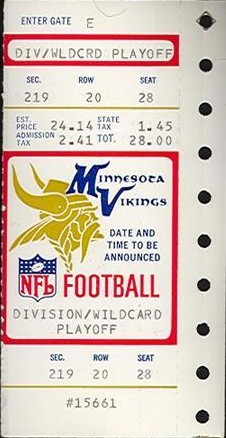 A ticket for the 1988 NFC Wild Card Game featuring the Los Angeles Rams versus the Minnesota Vikings at the Hubert H. Humphrey Metrodome on December 26, 1988.